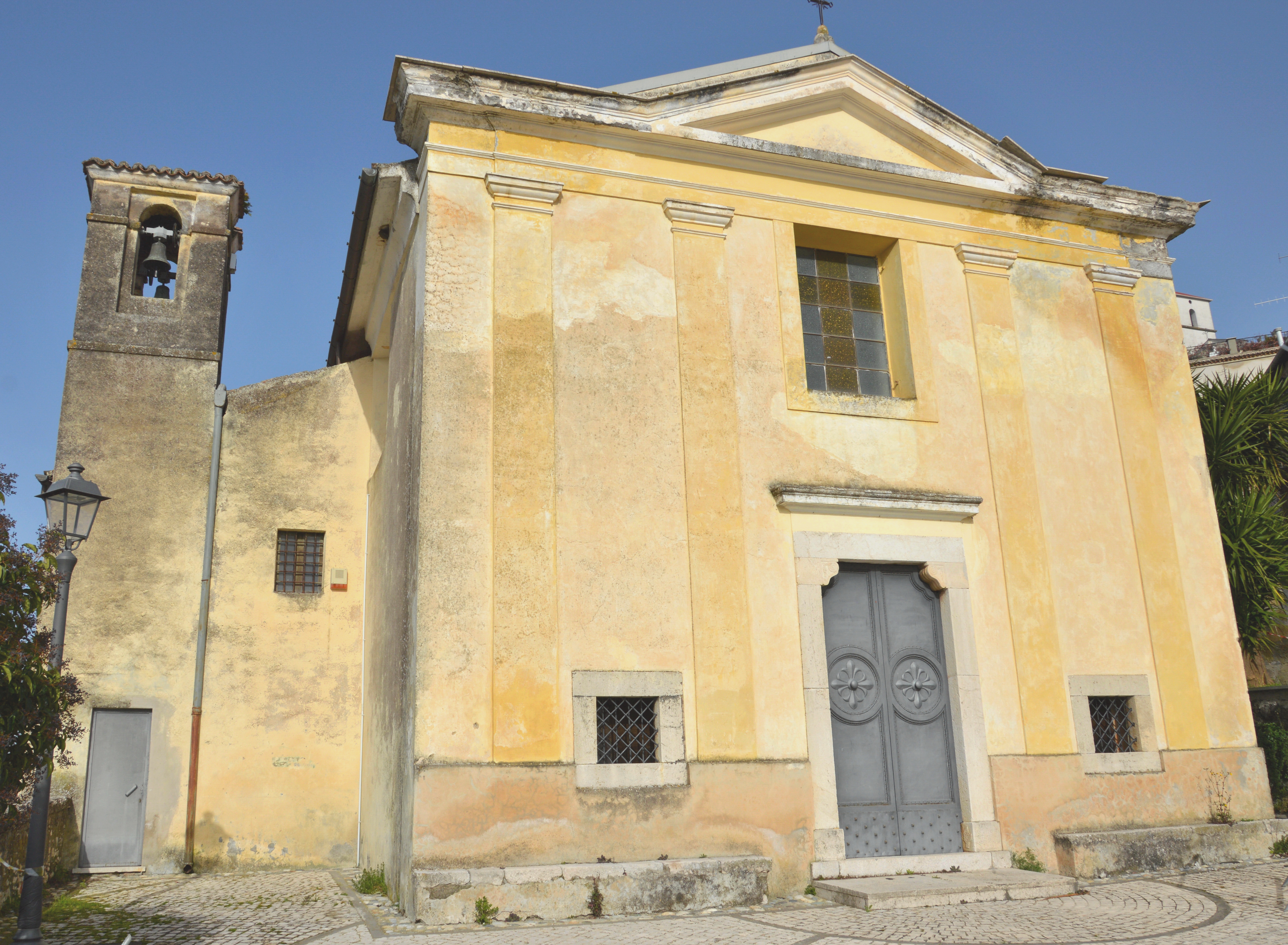 Gavignano (Rm)